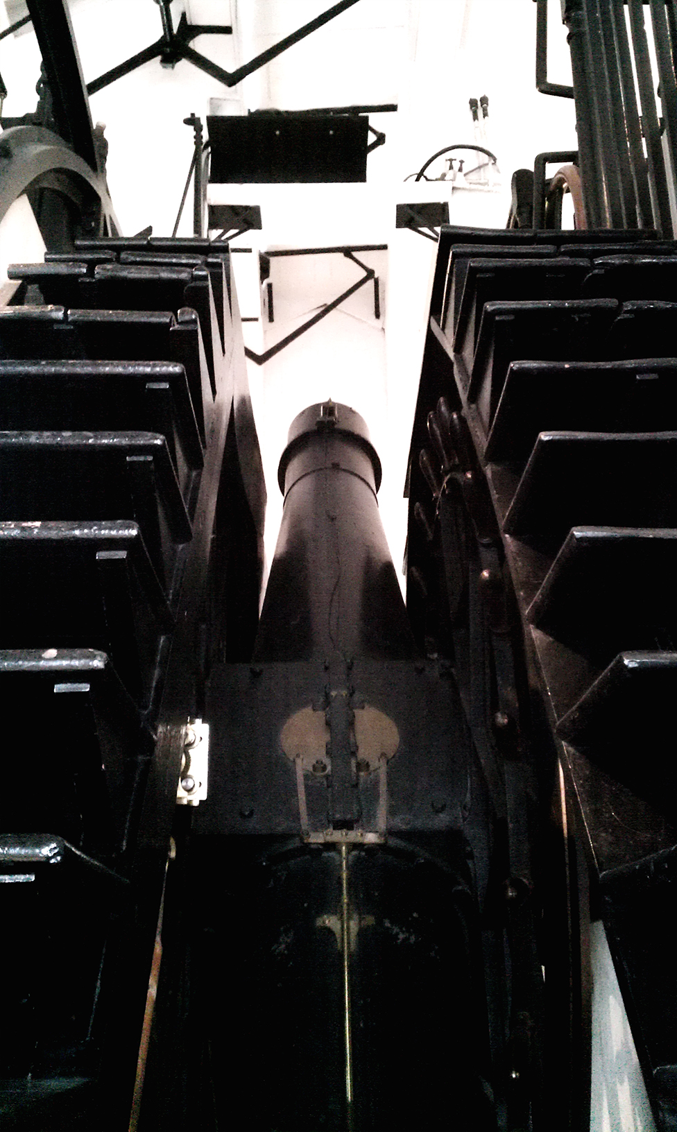 The Airy Transit Circle was designed by George Biddell Airy, and came into use 150 years ago. The first observation was taken on 4 January 1851, three days later than Airy had intended due to the English weather. The circle remained in continual use until 1938, and the last ever observation was taken in 1954. Mounted in the Transit Circle Room,defining the Greenwich Meridian since 4 January 1851.Makers: Ransomes & May of Ipswich (engineering)Troughton & Simms of London (optical and instrumental)to the design of G. B. Airy. Lens: 8.1 inch aperture objective glass Focal Length: 11 feet 7 inches Magnification: 195 (180 for the Sun).